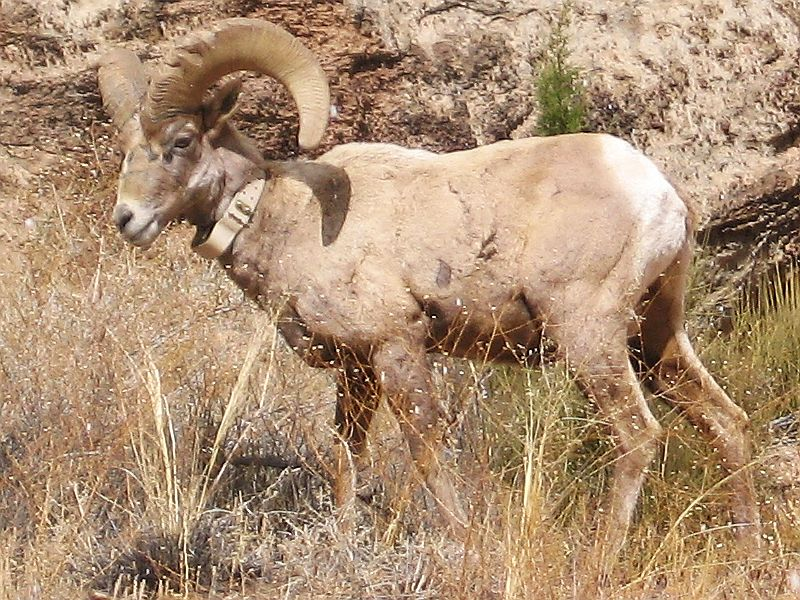 Desert Bighorn Sheep in Capitol Reef National Park